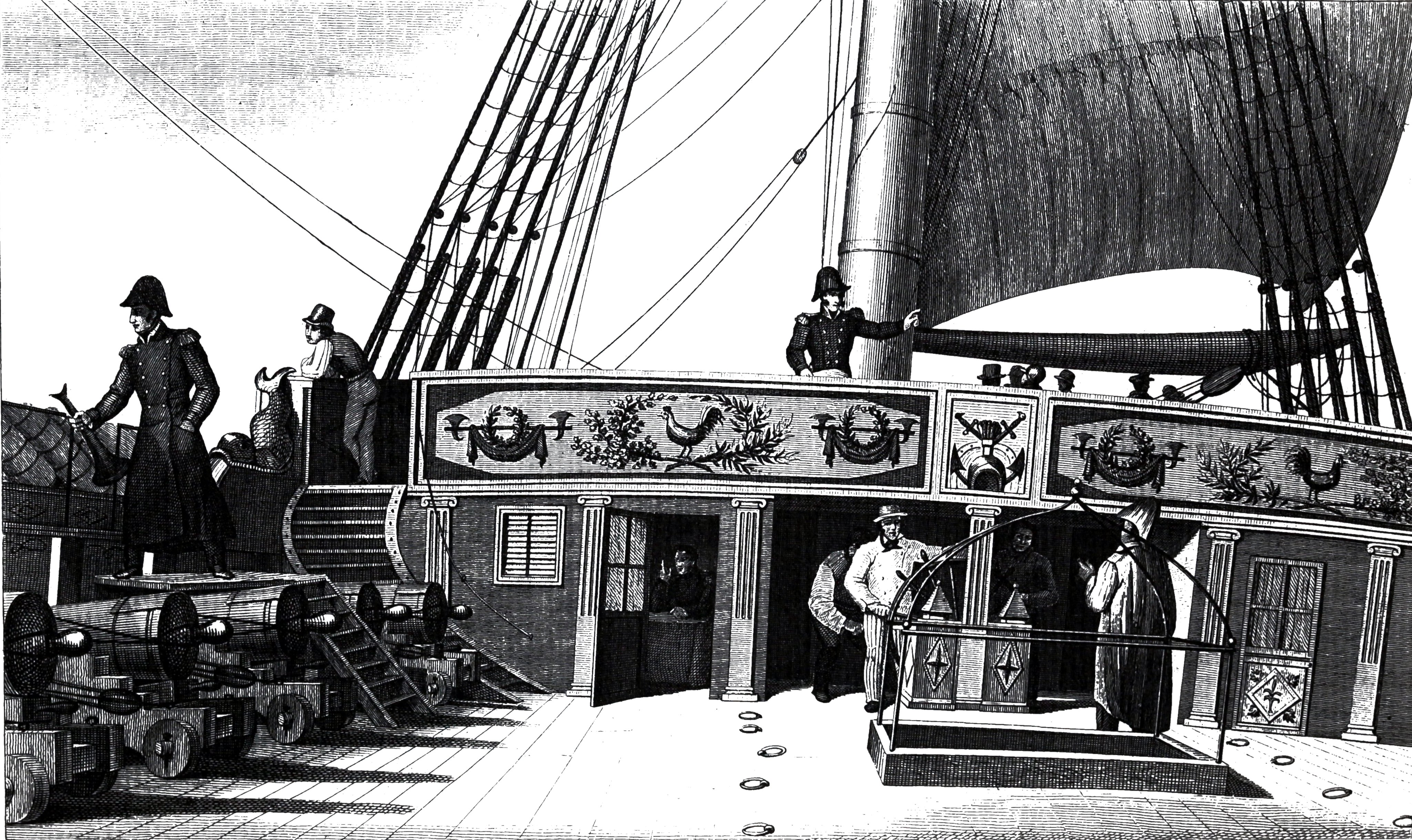 Aftercastle of the frigate Méduse